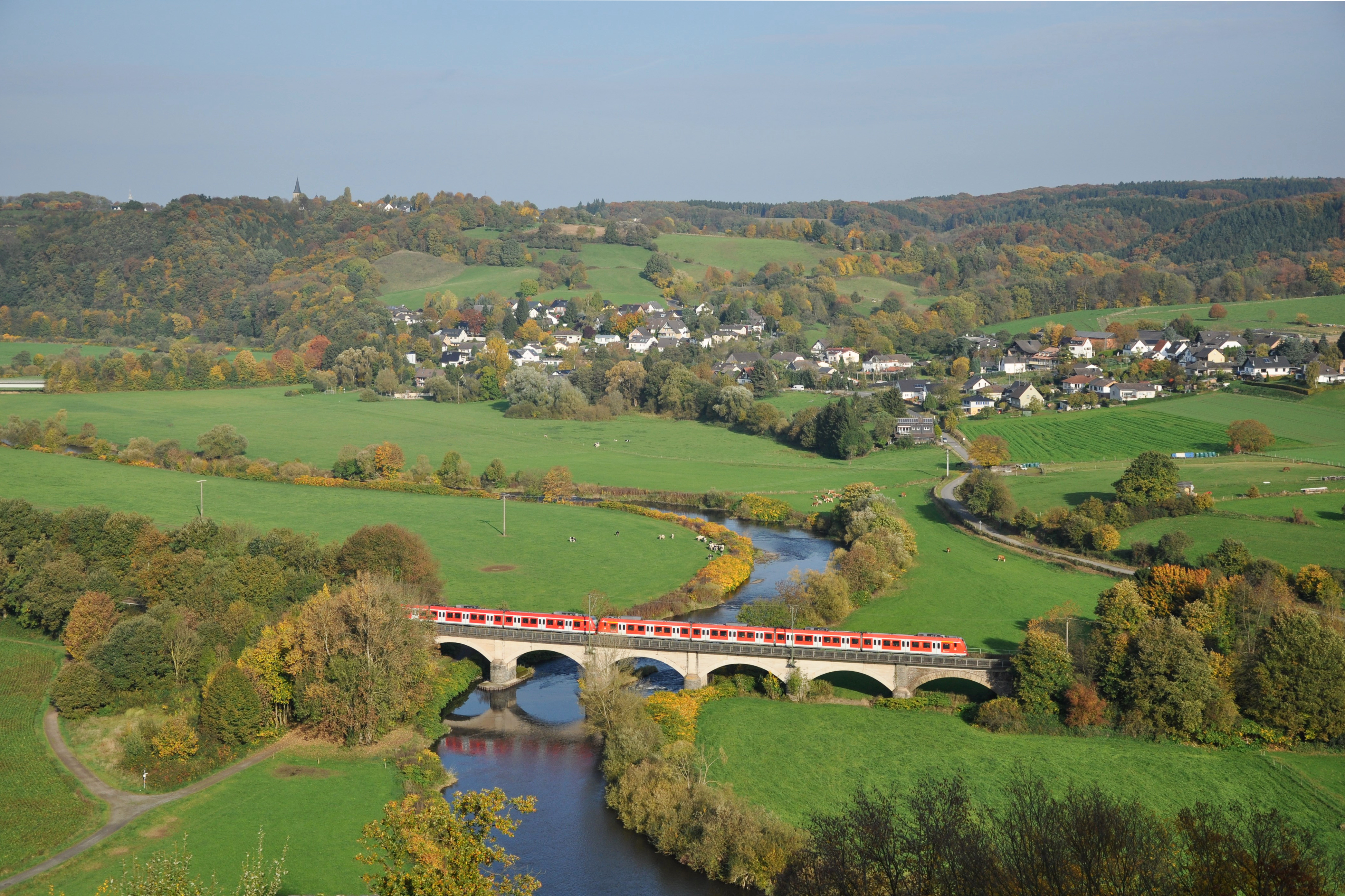 A Class 423 commuter train passes one of the numerous bridges of the Sieg Railway. The train of the S-Bahn Köln is on the way to Düren via Cologne. This image has been taken from the castle ruin Blankenberg which has lookout providing a good view over the valley.